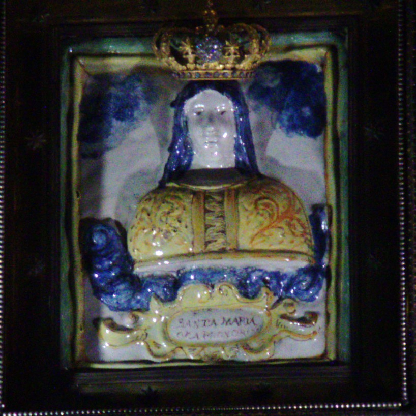 ceramic Santa Maria, Arezzo, Italy